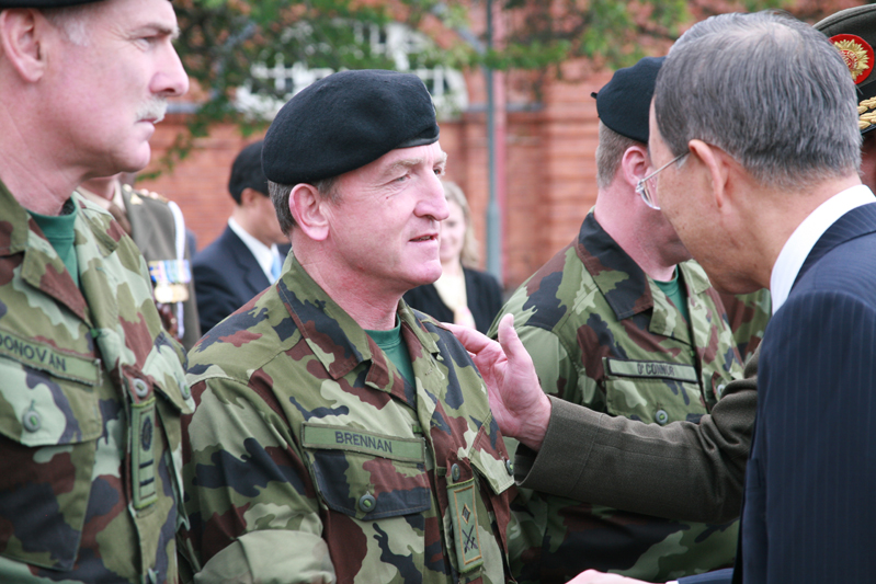 Lt Col Kieran Brennan, OC 98 Infantry Battalion with EUFOR Chad/RCA meets UN Secretary General, Mr Ban Ki Moon at McKee Barracks.